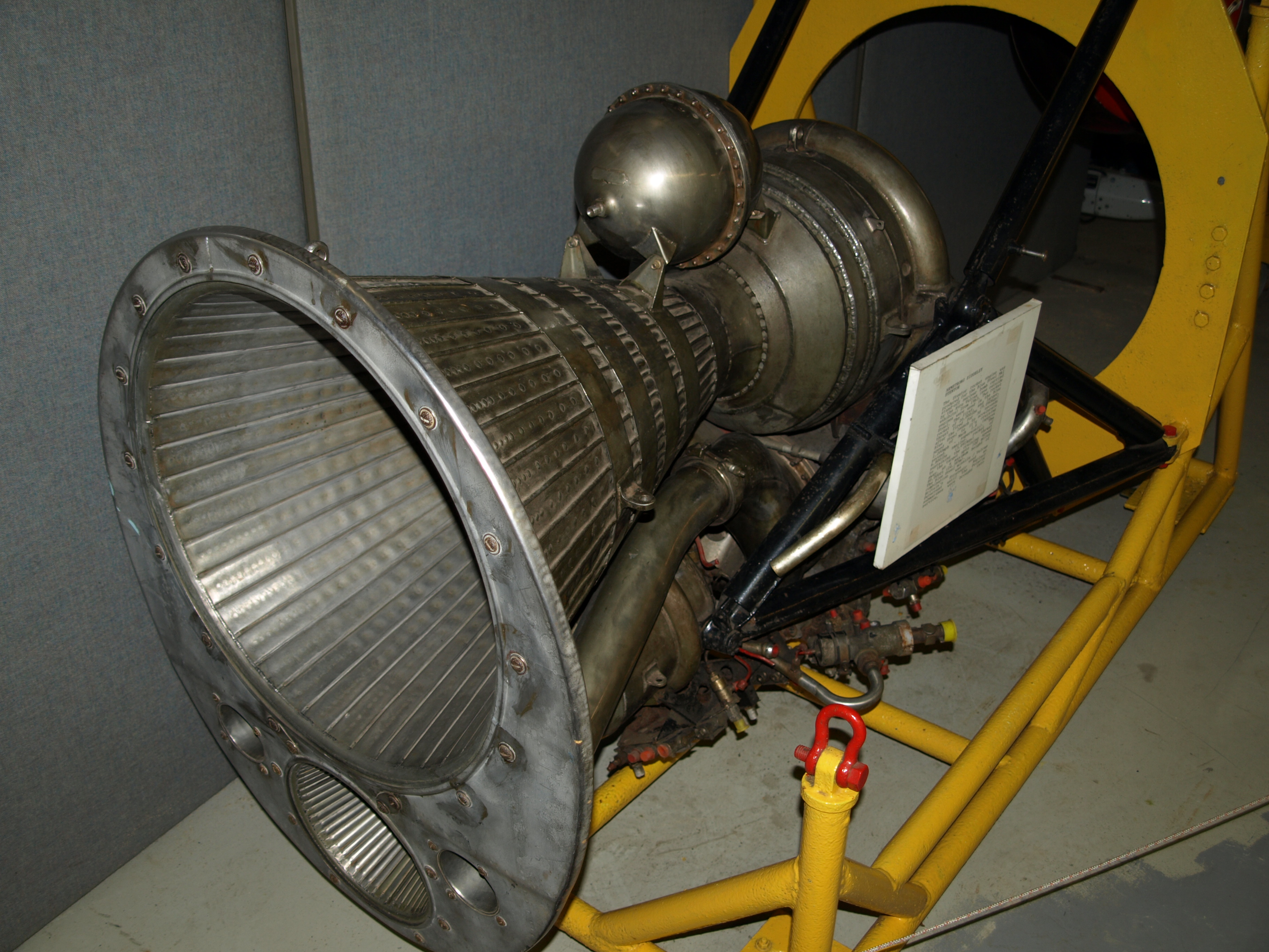 Armstrong Siddeley Stentor rocket engine